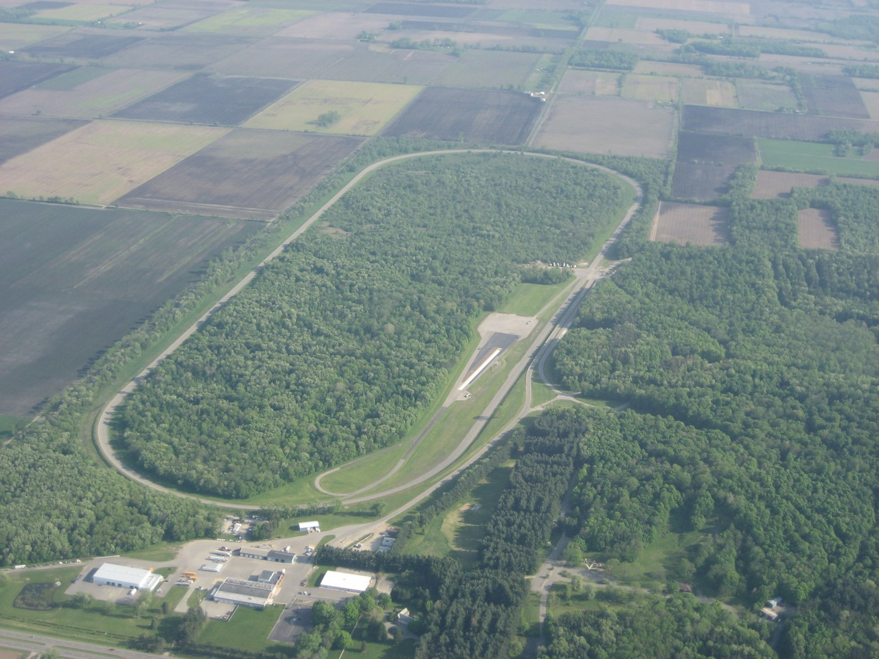 Studebaker test track located 10 miles west of South Bend, Indiana.